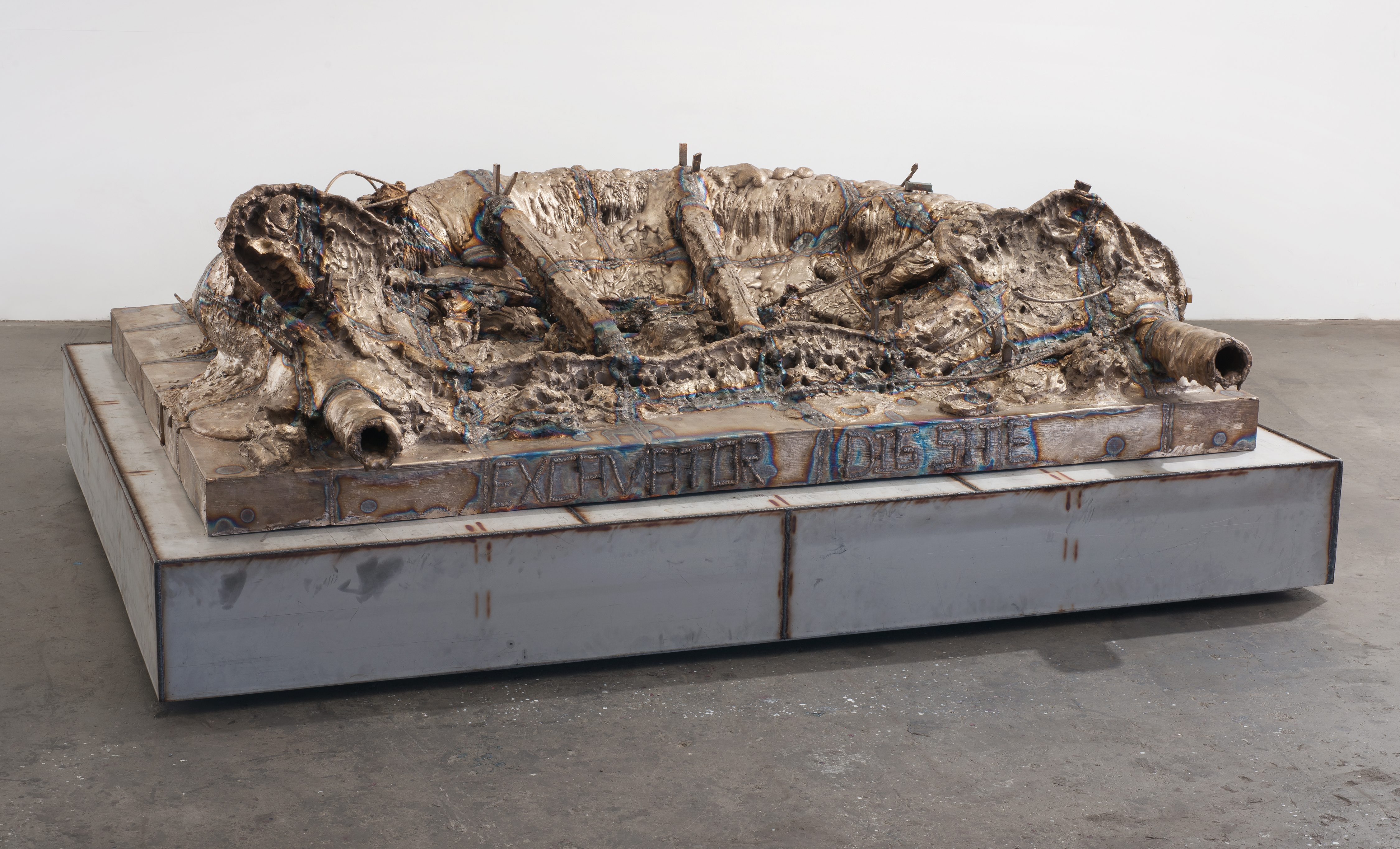 Image of Excavator Dig Site, Bronze, by the artist, Sterling Ruby.